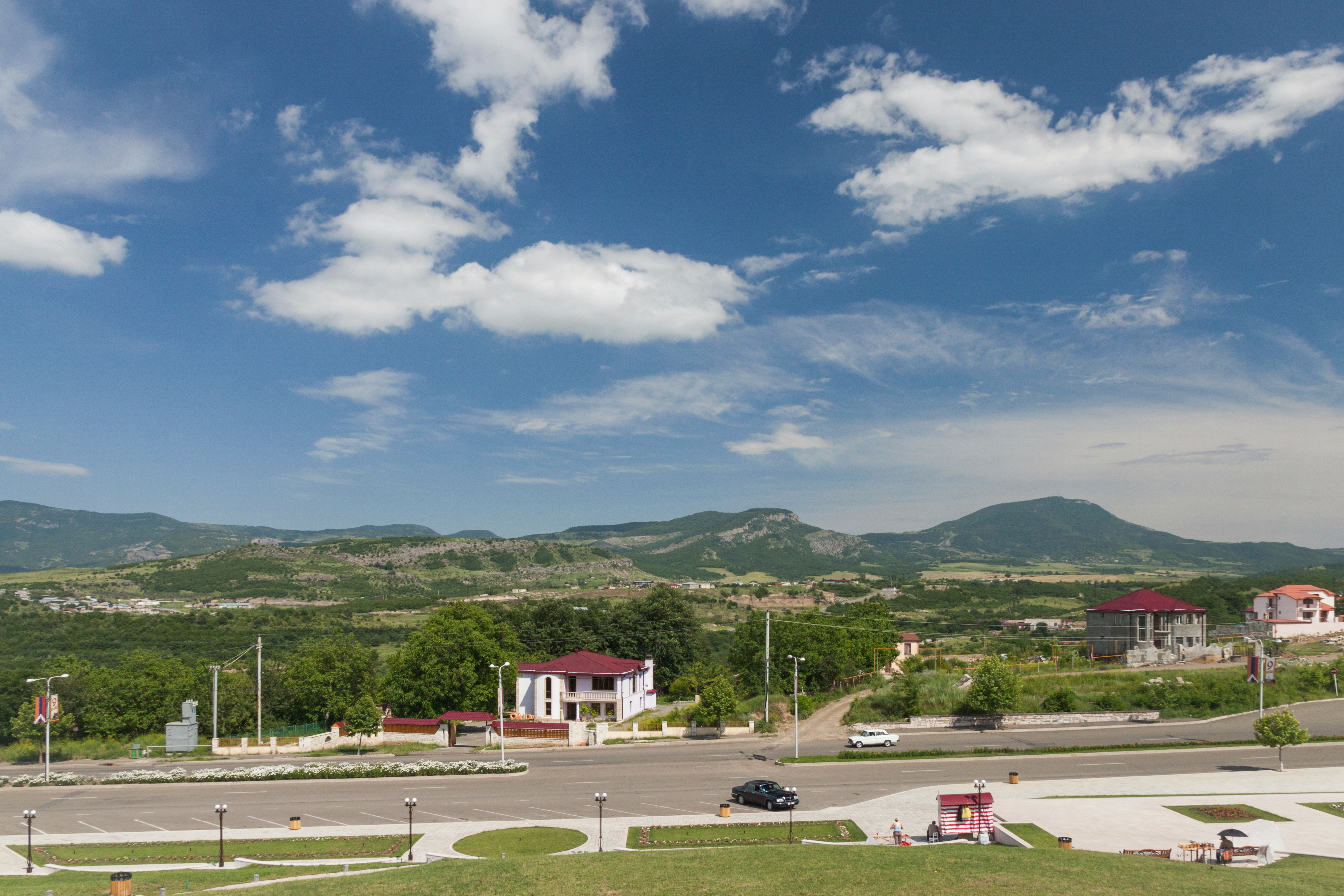 View of the mountains and the road to the city. Stepanakert/Xankəndi, Nagorno-Karabakh.